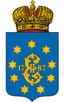 Coat of arms of Yekaterinoslav, Russian Empire, 1878